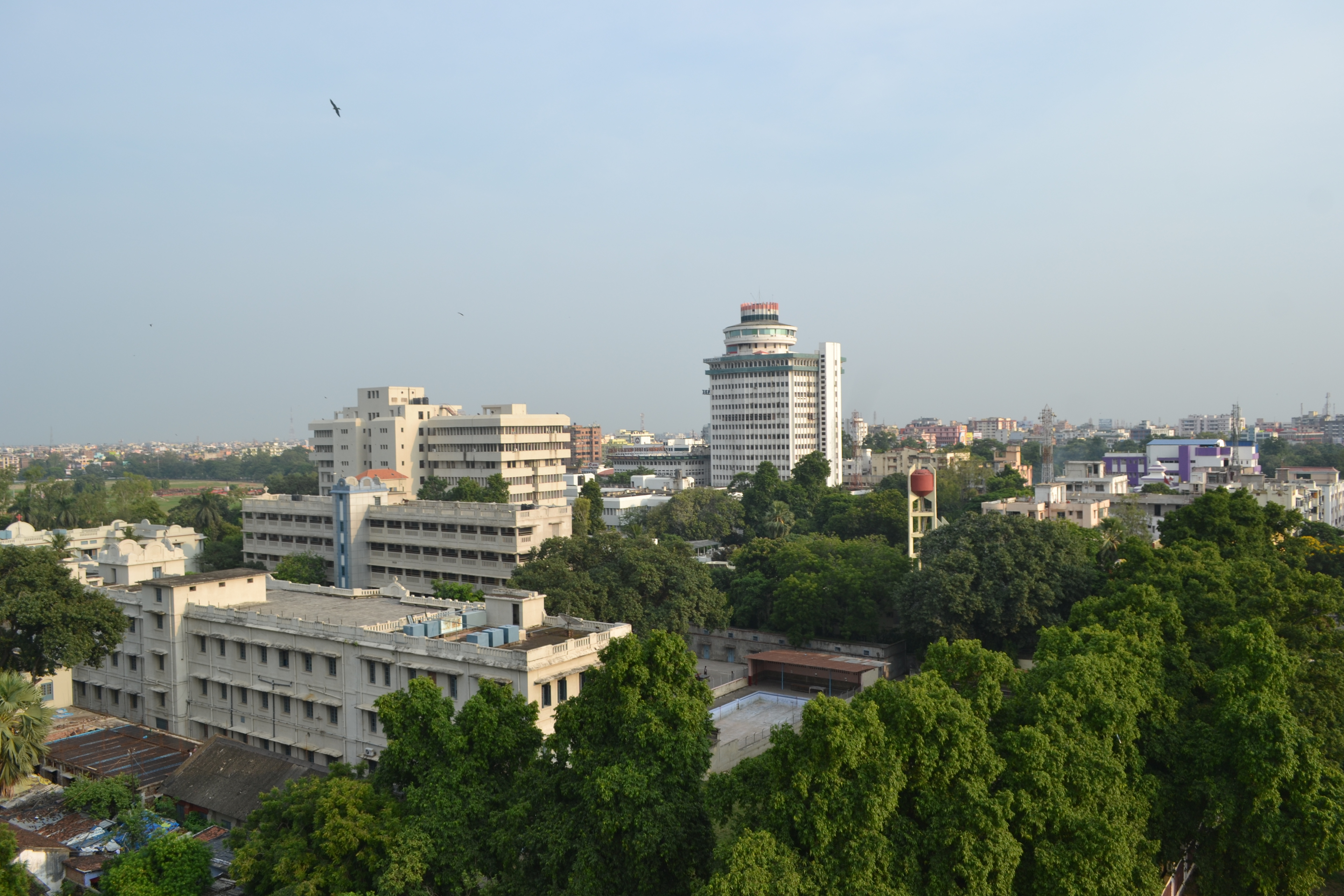 Golghar